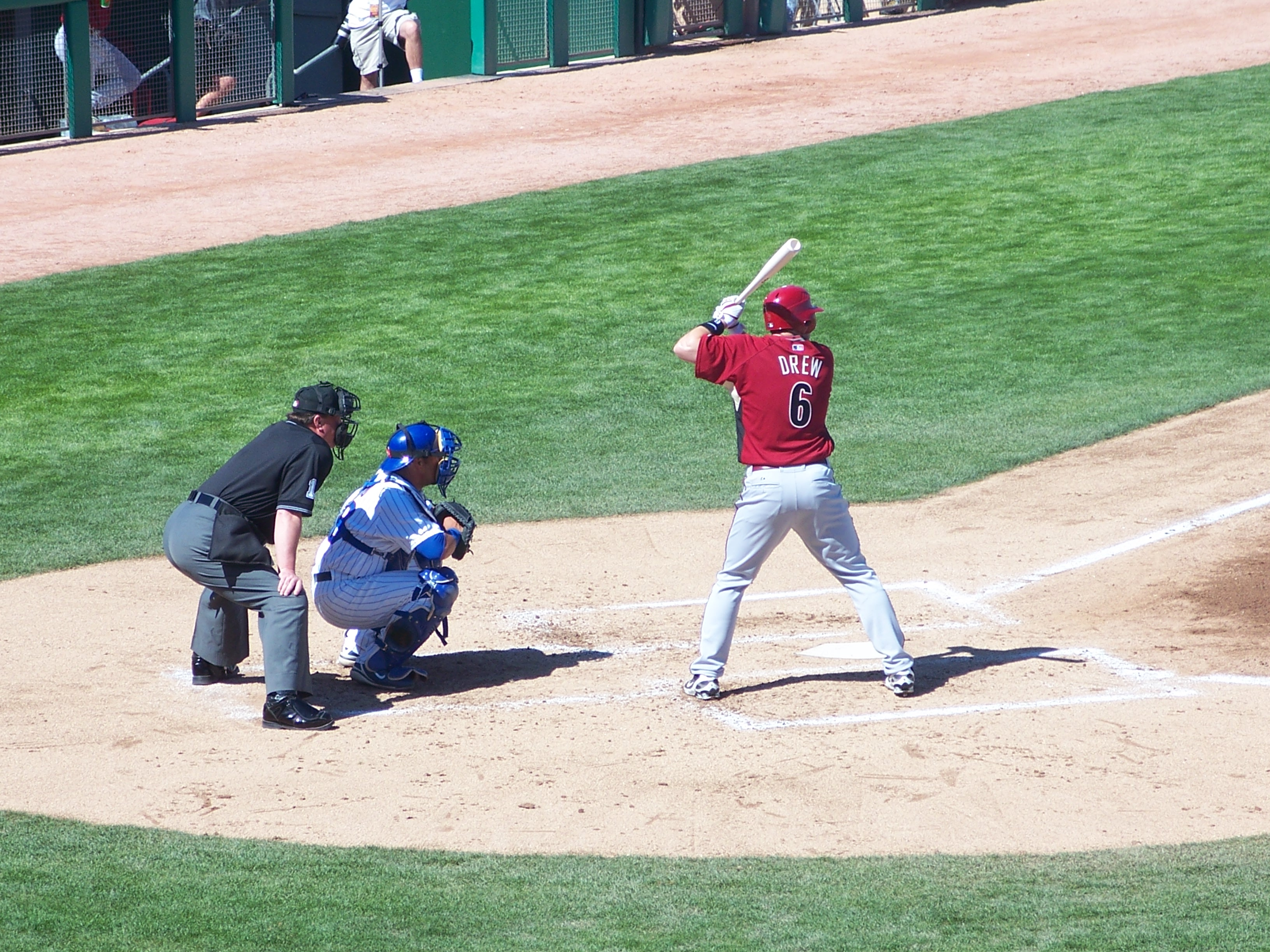 Picture of Stephen Drew at bat during a Spring Training game in Mesa, AZ, March 2008.